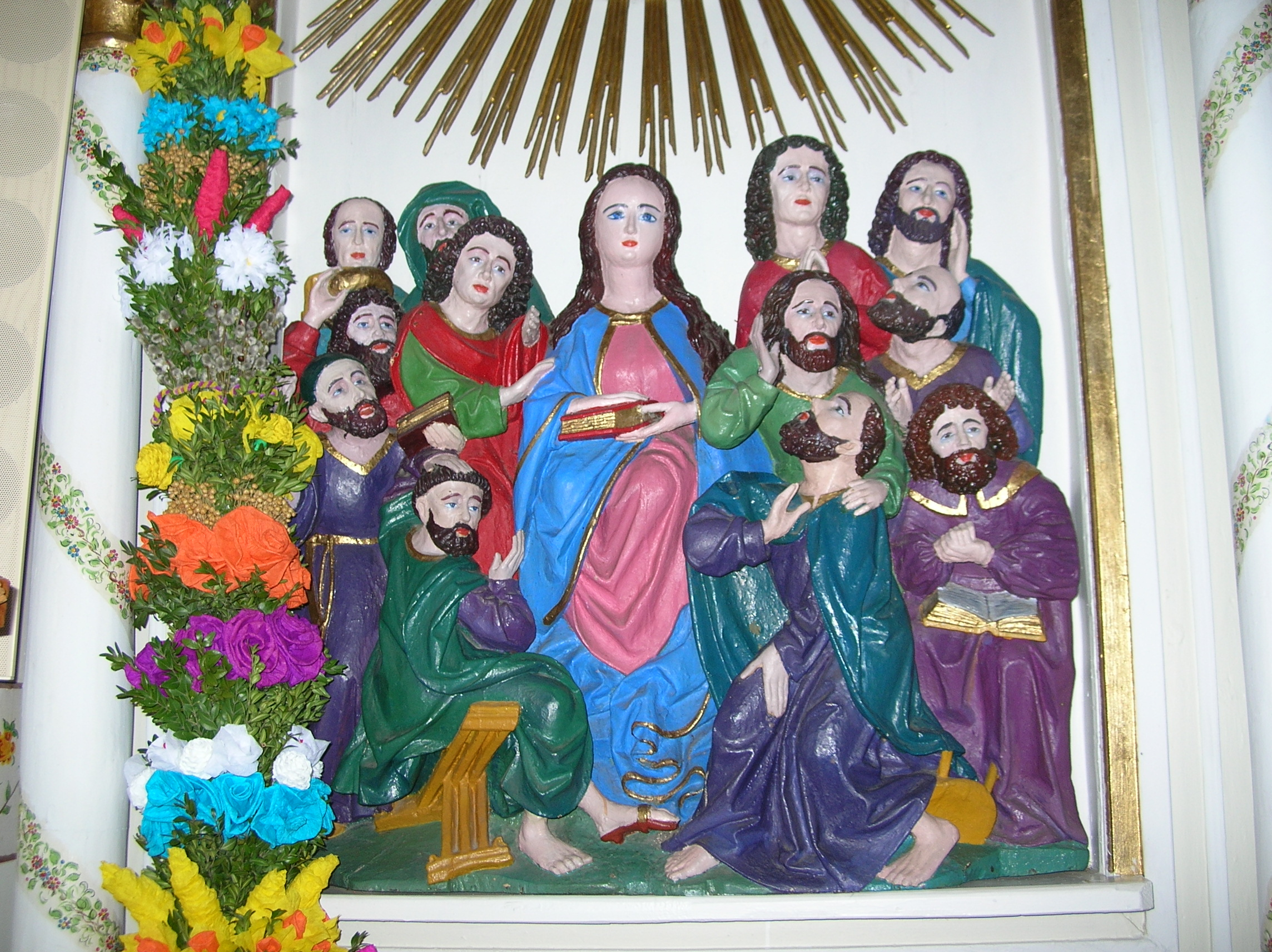 Late gothic altar of the church in Rechta